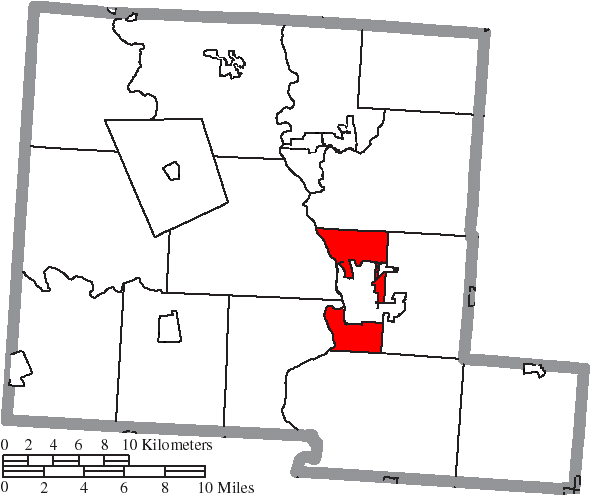 Map of the municipal and township boundaries of Pickaway County, Ohio, United States, as of the 2000 census, with the location of Circleville Township highlighted. Township borders are shown only in unincorporated areas in order to differentiate incorporated and unincorporated areas more clearly.